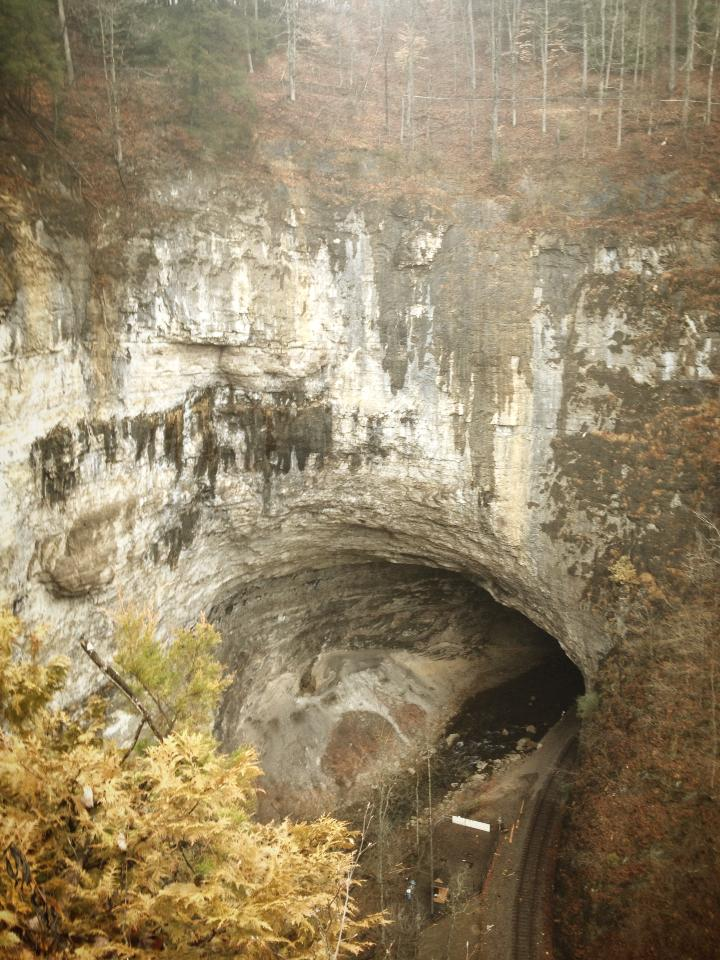 First Day Hikes nsh